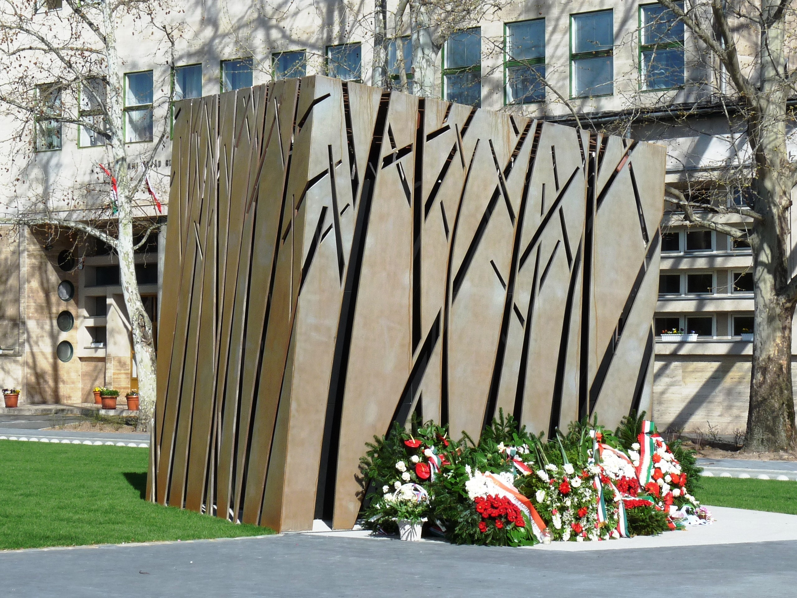 Memorial to the victims of the Katyń massacre in the 3rd district of Budapest (Óbuda). The cube-shaped memorial made of rusted iron inclined contains a block of black granite. The pattern of openwork iron imitates a forest recalling the location of the massacre. In the evening it is lit from within. The authors are Mr. Géza Varga-Szeri sculptor and Mr. Zoltán Varga-Szeri architect. Its inauguration took place on 8th April 2011.